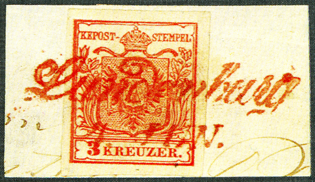 Stamp of KK Austria, first issue 1850, 3 kreuzer. Rare linear red cancellation Lundenburg (Moravia) Mueller type sL-I (150x8P).